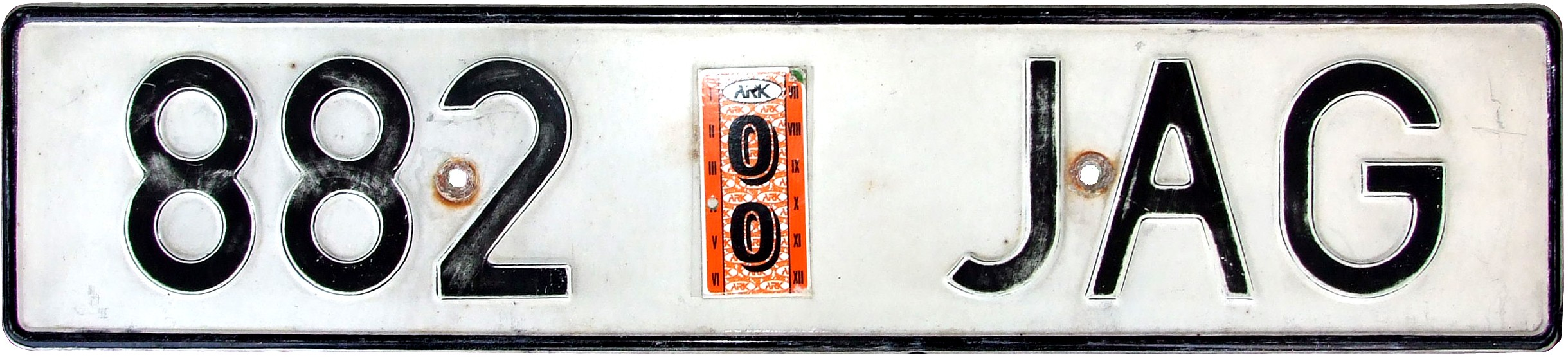 Estonian license plate 1993-2004